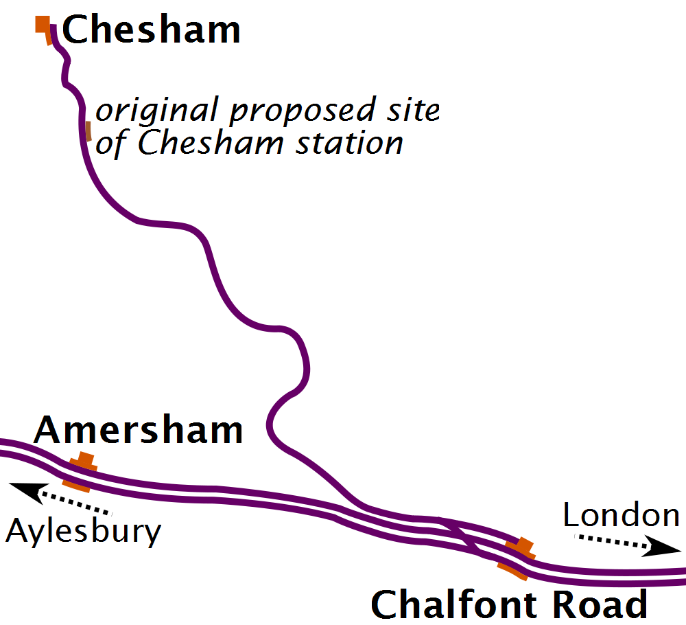 Layout of railway lines around Amersham, Chesham and Chalfont Road (now Chalfont & Latimer) stations, 1892